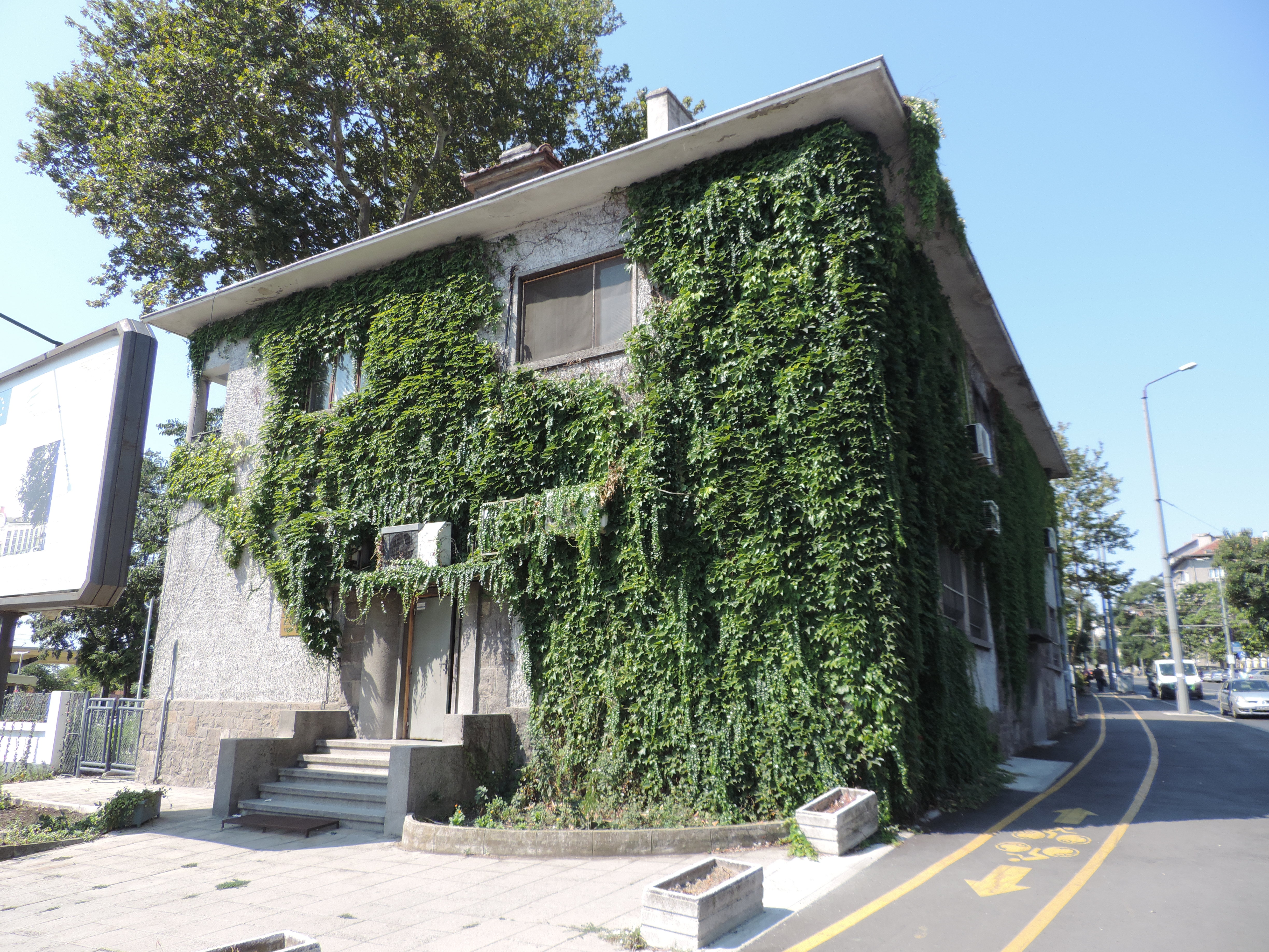 The building of the "Railway Infrastructure" administration in Burgas, Bulgaria